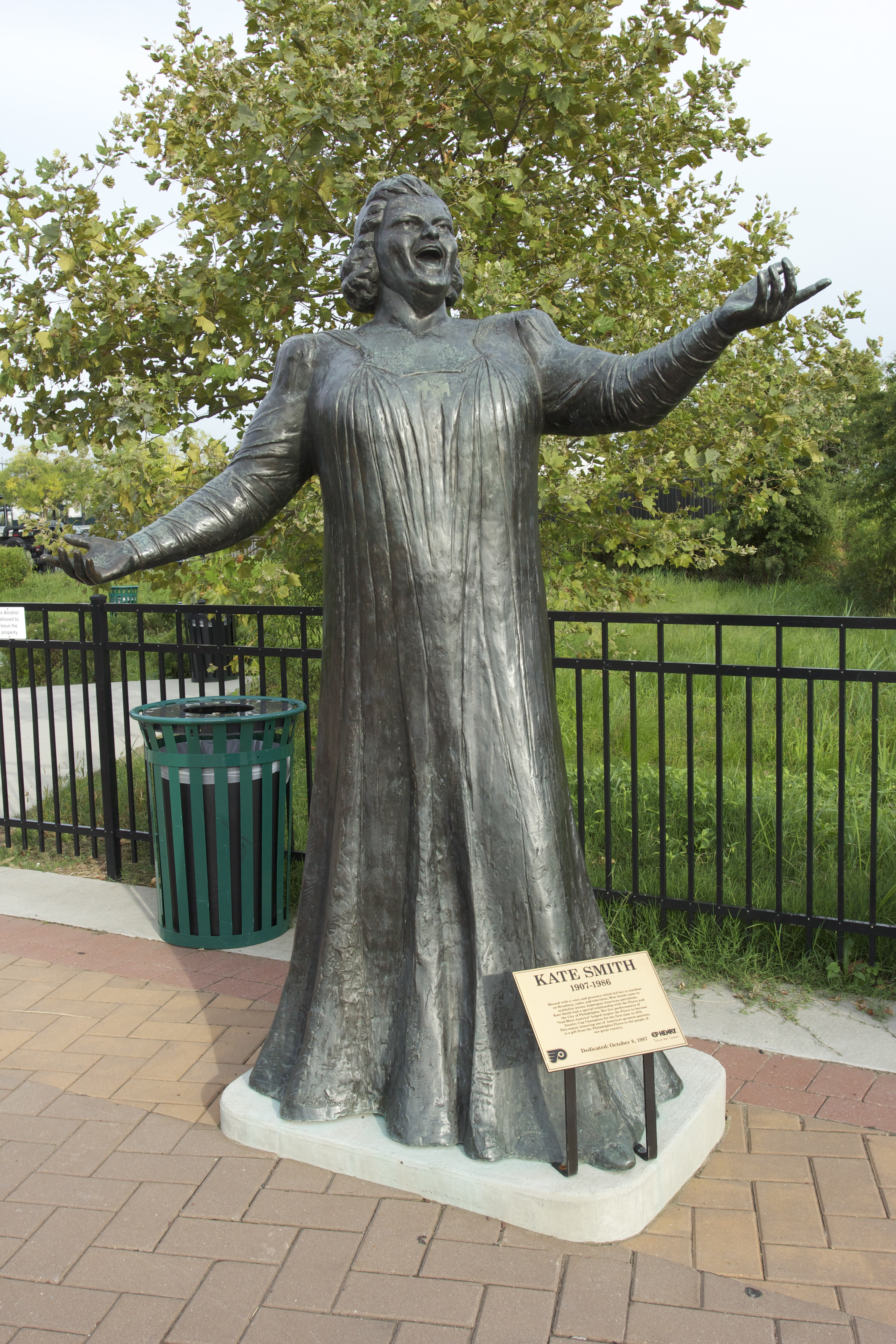 Sports statues in South Philadelphia